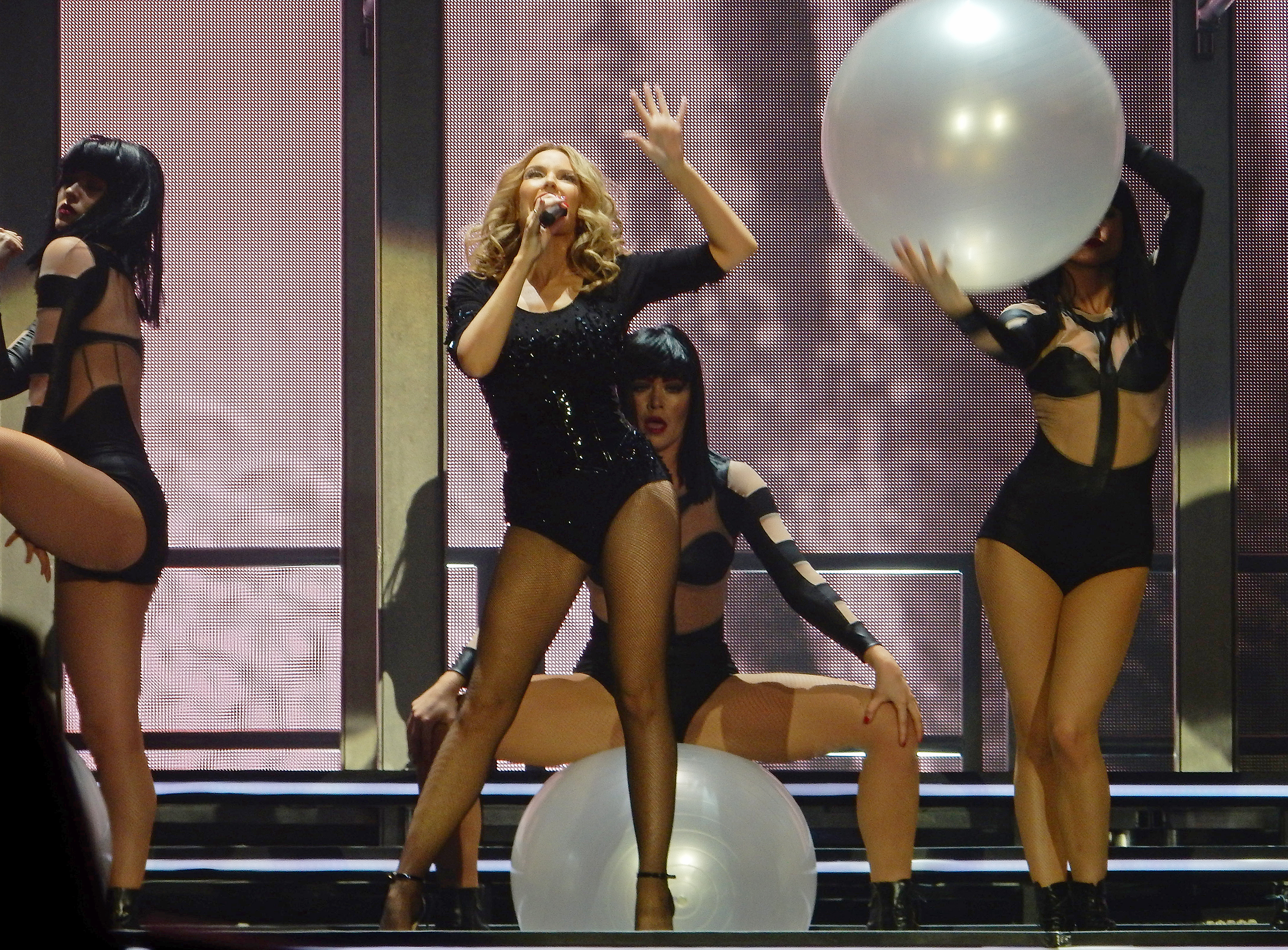 Kylie Minogue - Kiss Me Once Tour - Sheffield - 13.11.14. - 175